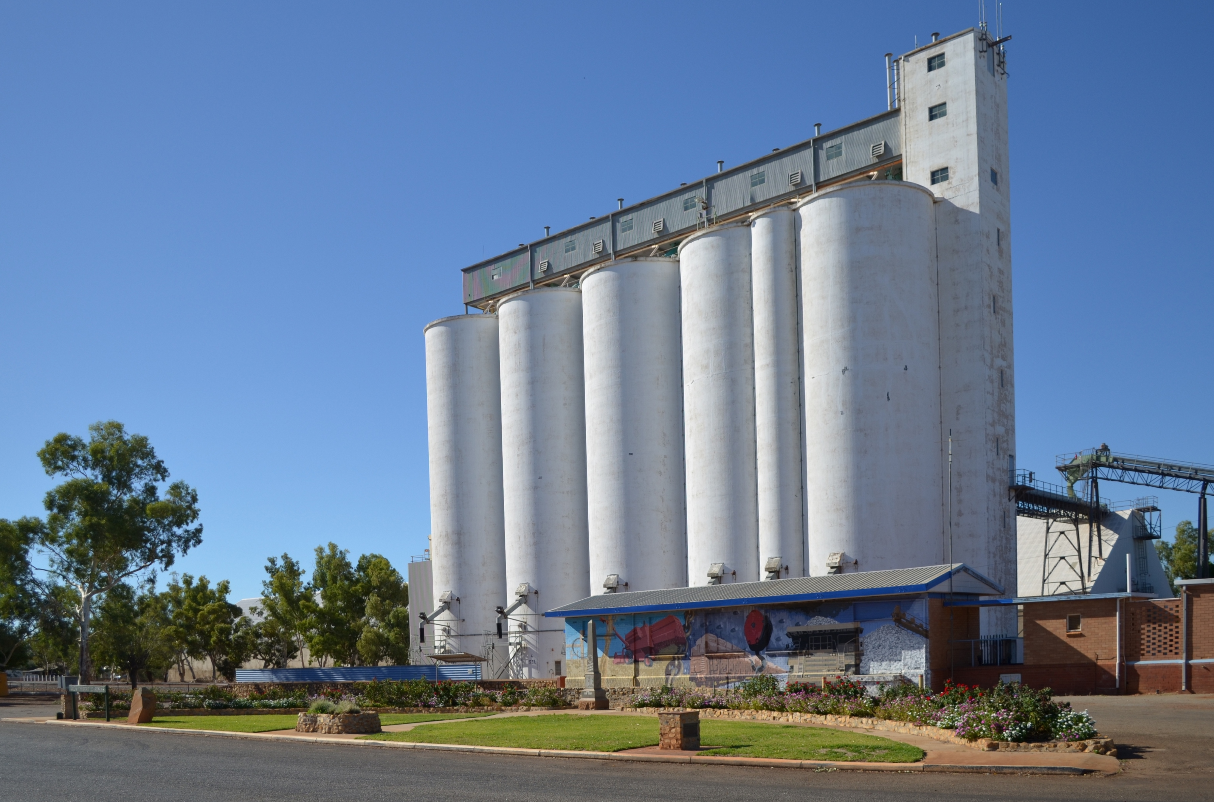 The railway station (foreground) and grain silo (background), Three Springs, Western Australia.